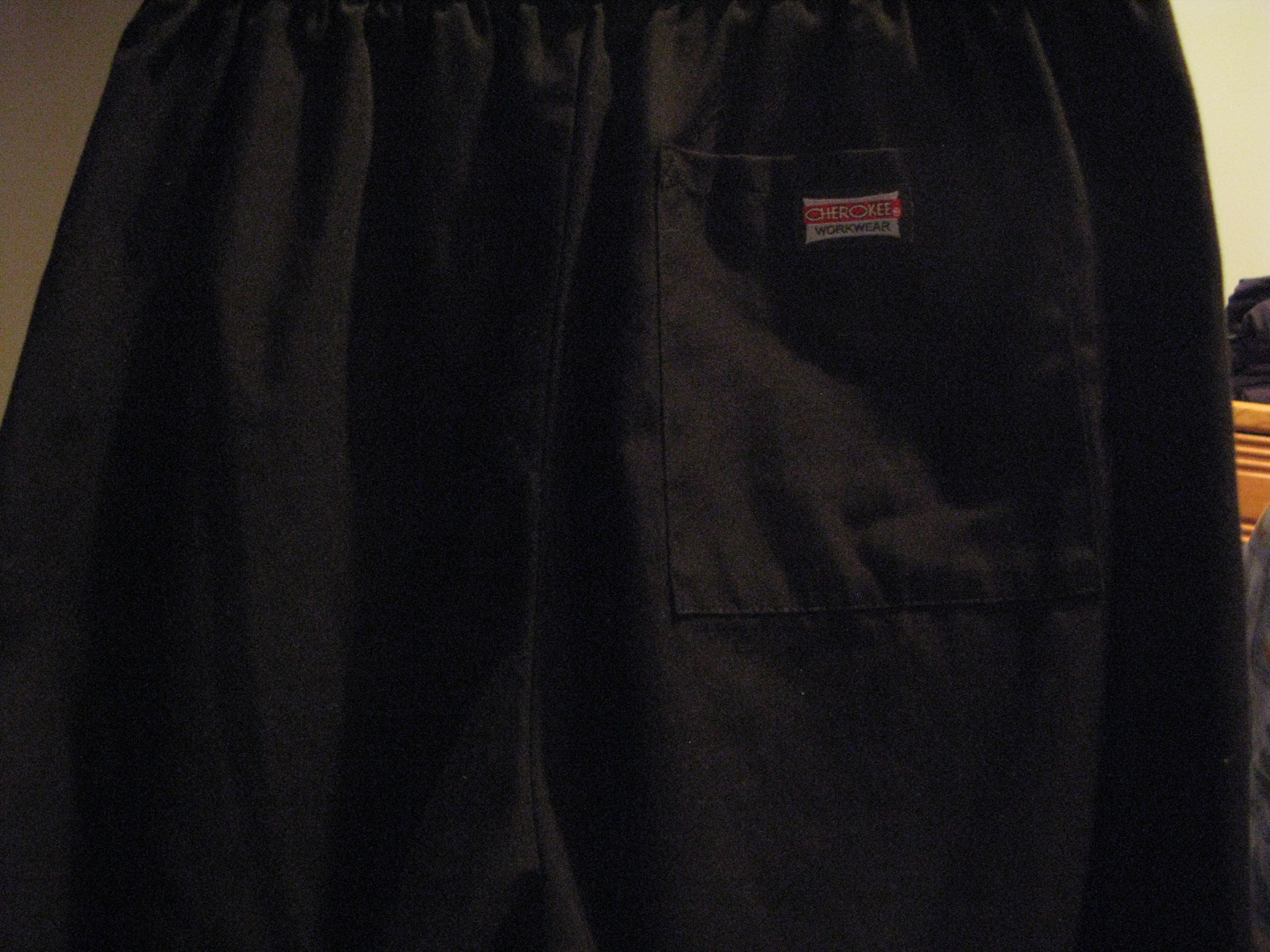 A pair of Cherokee Workwear drawstring pants.